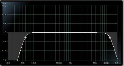 audio filter